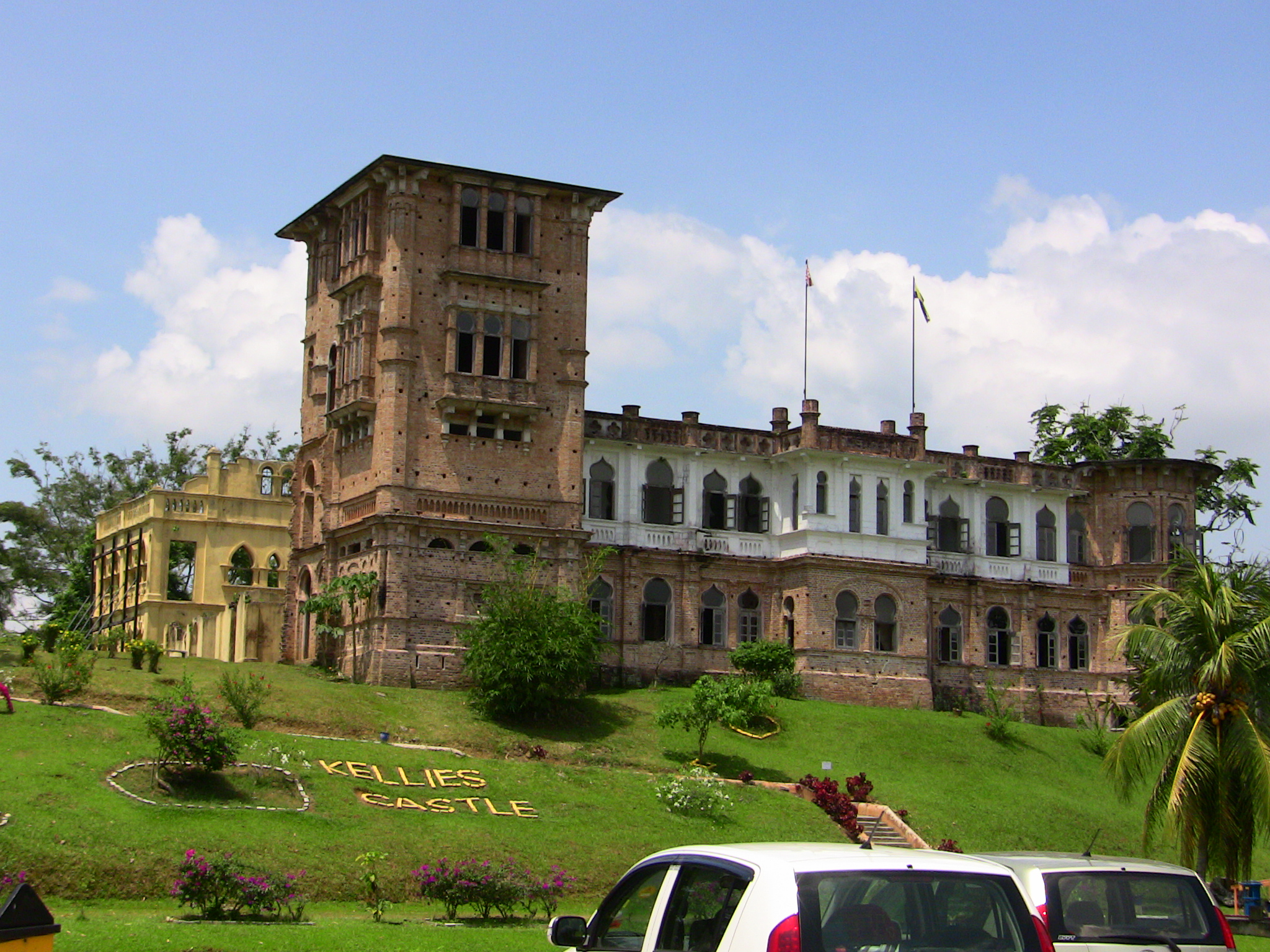 Kellie's Castle, located near Batu Gajah, in Perak, Malaysia.